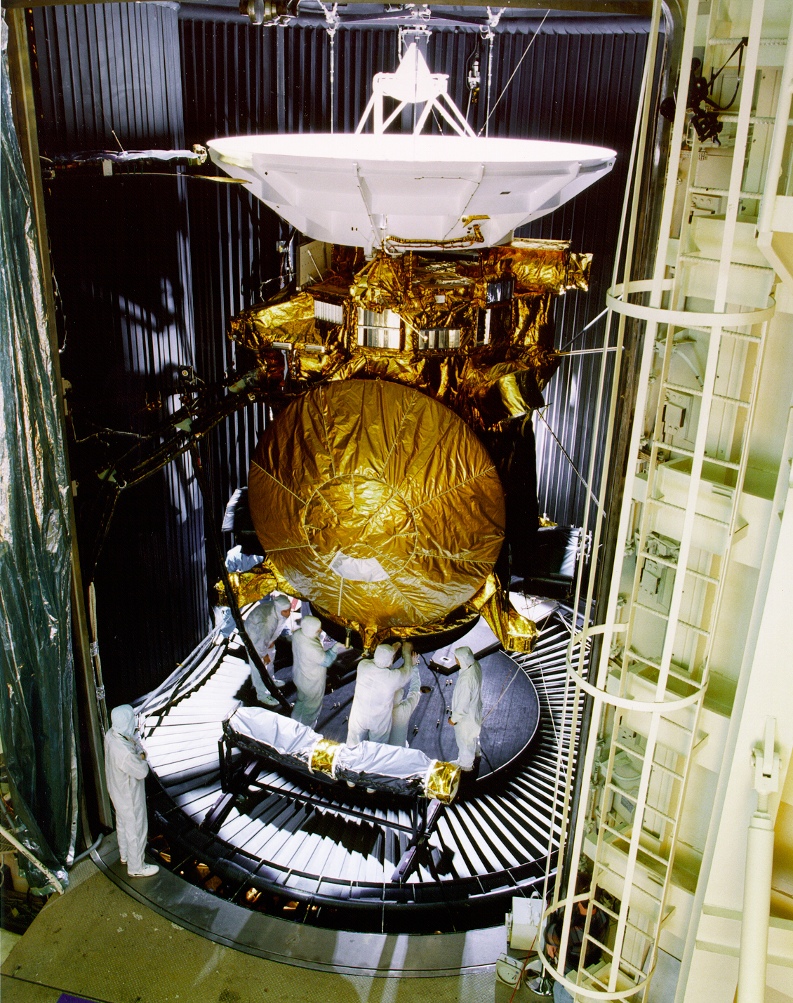 The newly assembled Cassini Saturn probe undergoes vibration and thermal testing at the JPL facilities in Pasadena, California. Subjected to weeks of "shake and bake" tests that imitate the forces and extreme temperatures the spacecraft will experience during launch and spaceflight. Cassini's mission is to orbit Saturn for four years and study the planet, its rings and moons in detail. The large moon Titan is a principal target for exploration, and Cassini will carry the Huygens probe, (gold-mylar circular object seen here mounted on the front of the spacecraft) to be released to enter Titan's thick atmosphere and descend to the surface via parachute. The Huygens probe is provided by the European Space Agency (ESA) and the radio antenna at top was provided by the Italian Space Agency (ASI). The project is a joint endeavor of NASA, the European Space Agency and the Italian Space Agency. JPL manages the program for NASA's Office of Space Science, Washington, DC.